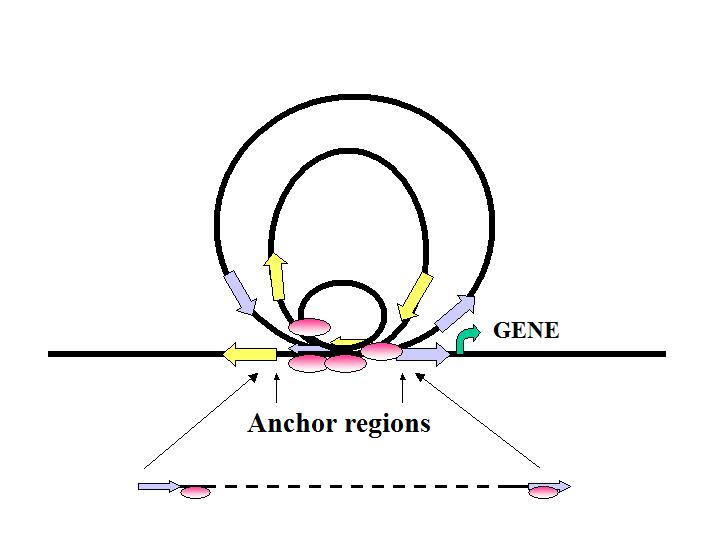 Science